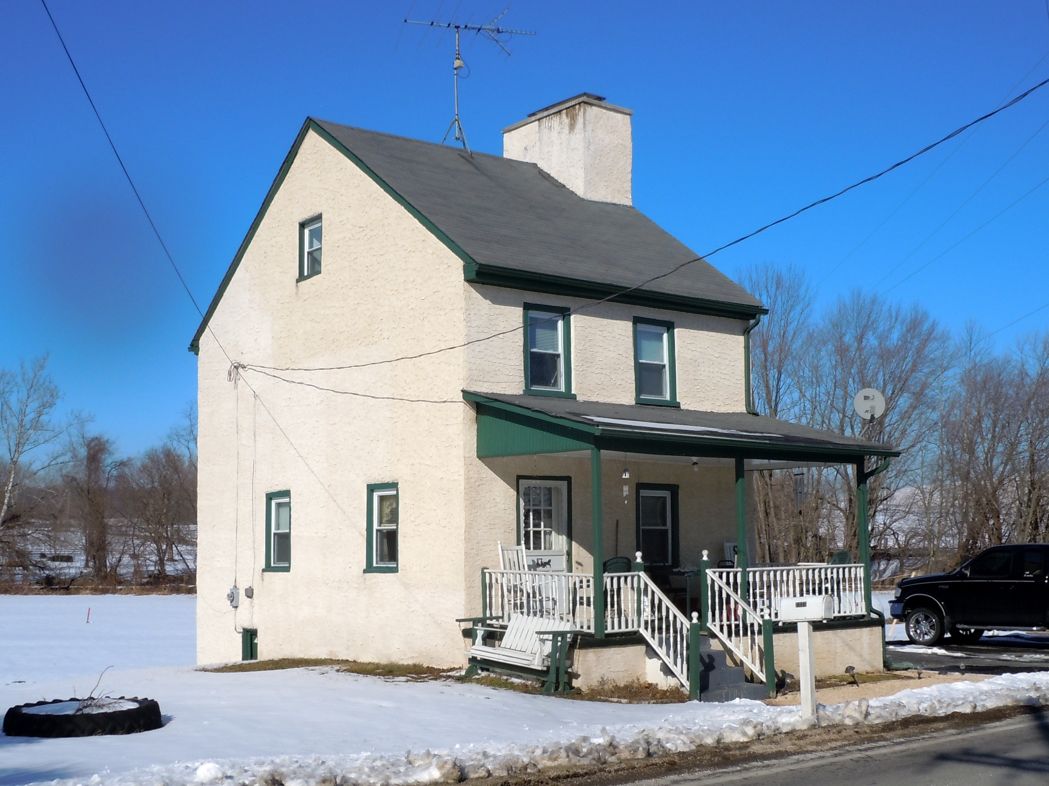 House at Springdell on the NRHP since September 16, 1985. On Pennsylvania Route 841 in the hamlet of Springdell (4 houses), in West Marlborough Township, Chester County, Pennsylvania. Eighteenth century house built according to William Penn's "Penn Plan" which he proposed for houses in his proprietary colony. House may be associated with James Fitzgerald, Continental Army deserter, who served with British forces during the Battle of Brandywine and looted the surrounding region (including the area around Springdell), and was hung by Continental forces in September, 1778. Fitzpatrick might also have been known as "Sandy Flash" but a lot about Flash seems to have been invented for tourism purposes.